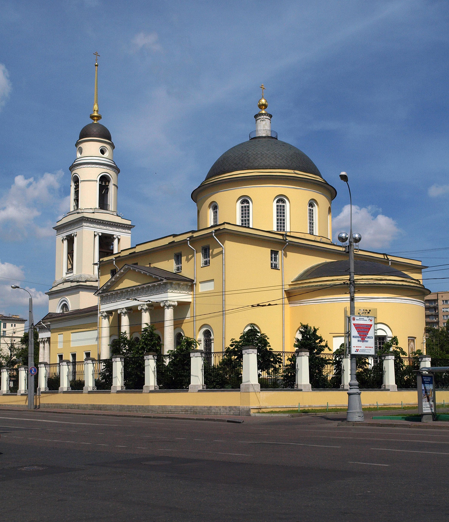 Great Ascension Church, Nikitskie Gates, Moscow. Architects: Joseph Bove, completion: Afanasy Grigoriev, Fyodor Shestakov